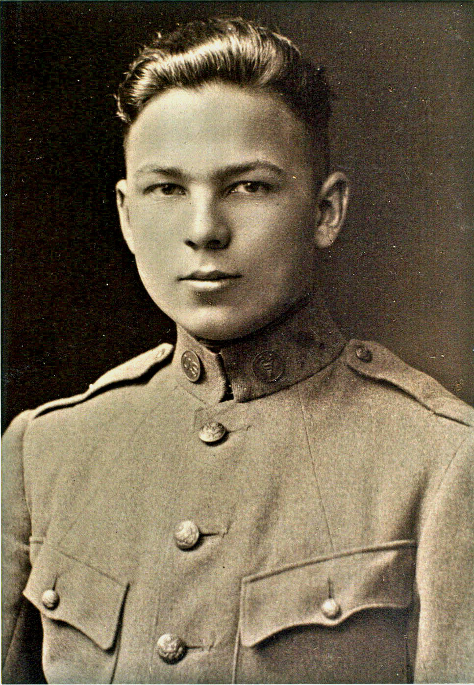 Frank Buckles, enlistment photograph